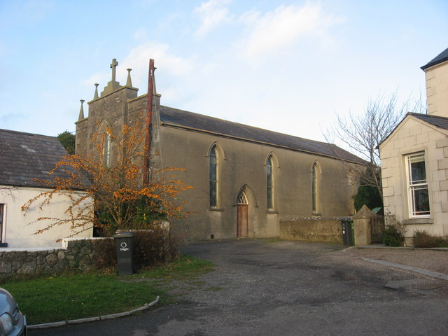 Church at Mornington, Co. Meath Built by Hammond of Drogheda in 1841 for the Rev. Donellan, the Star of the Sea church was closed in 1989 when a new church was built nearby.